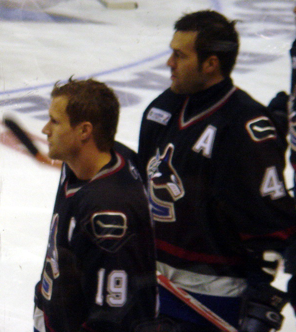 Vancouver Canucks linemates Markus Naslund and Todd Bertuzzi in the 2005–06 season opener.